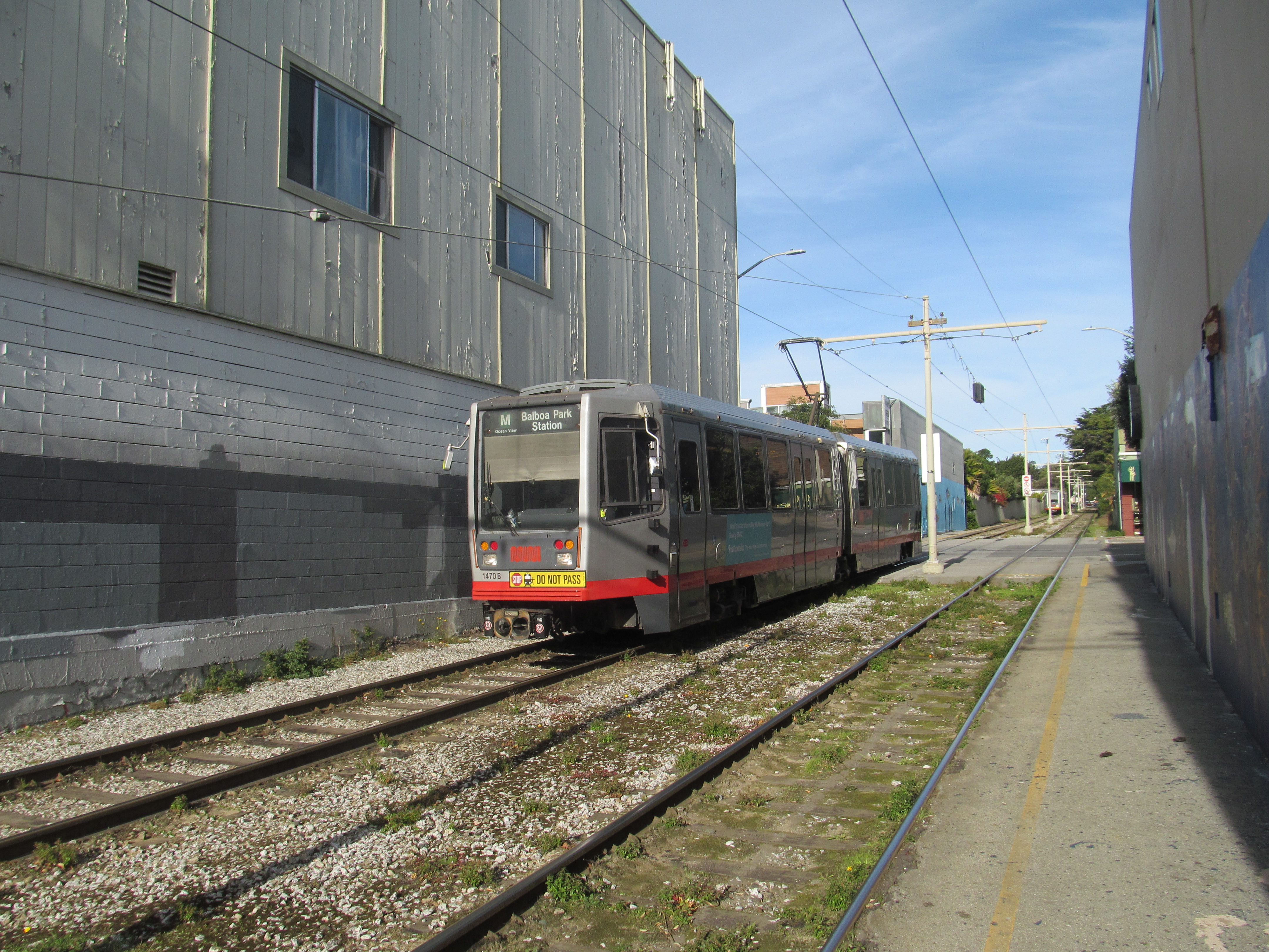 Southbound train passing the northbound platform at Ocean Avenue station in December 2017